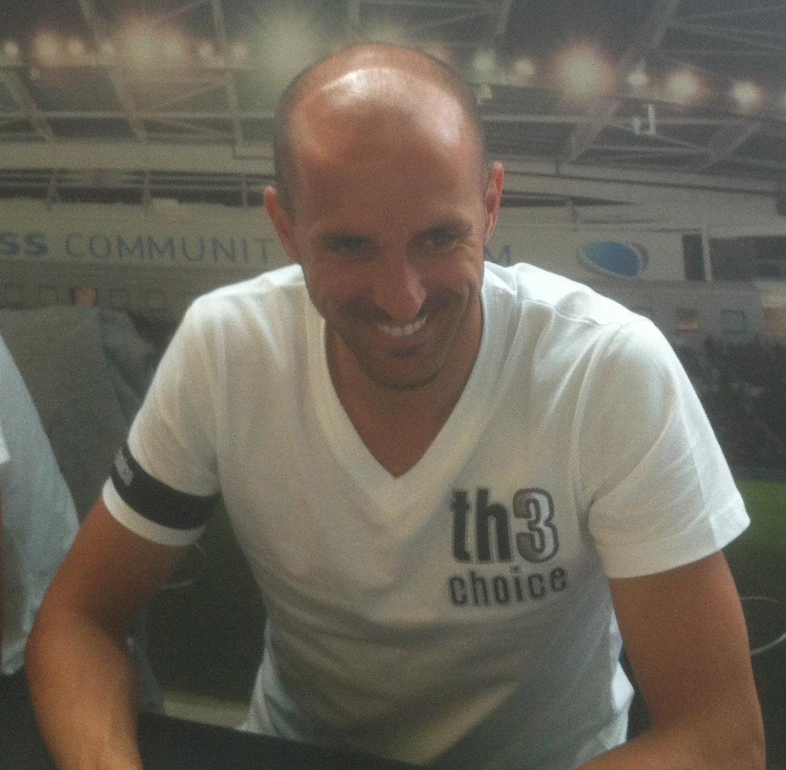 Bruno Saltor Grau, a Spanish football player